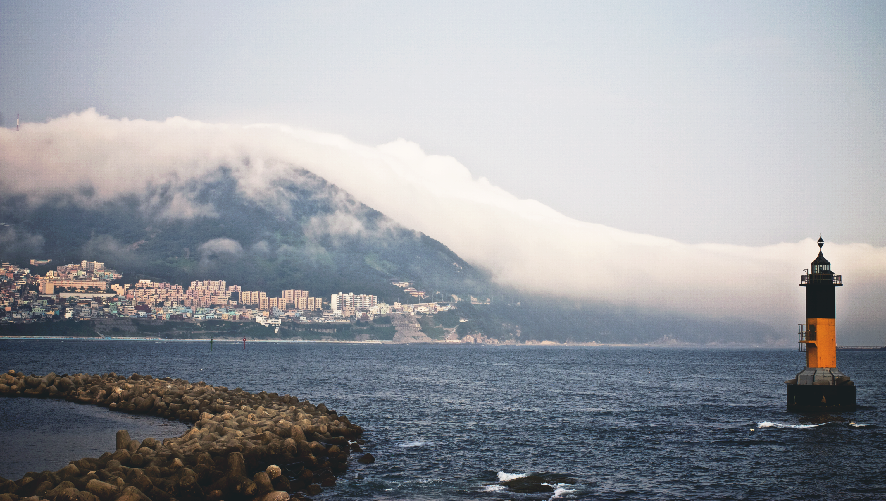 Western side of Yeongdo in Busan, South Korea. Photograph from Flickr; author ecodallaluna; license of CC BY-SA 2.0. Edited from the original photograph (lighting, cropping, etc.).